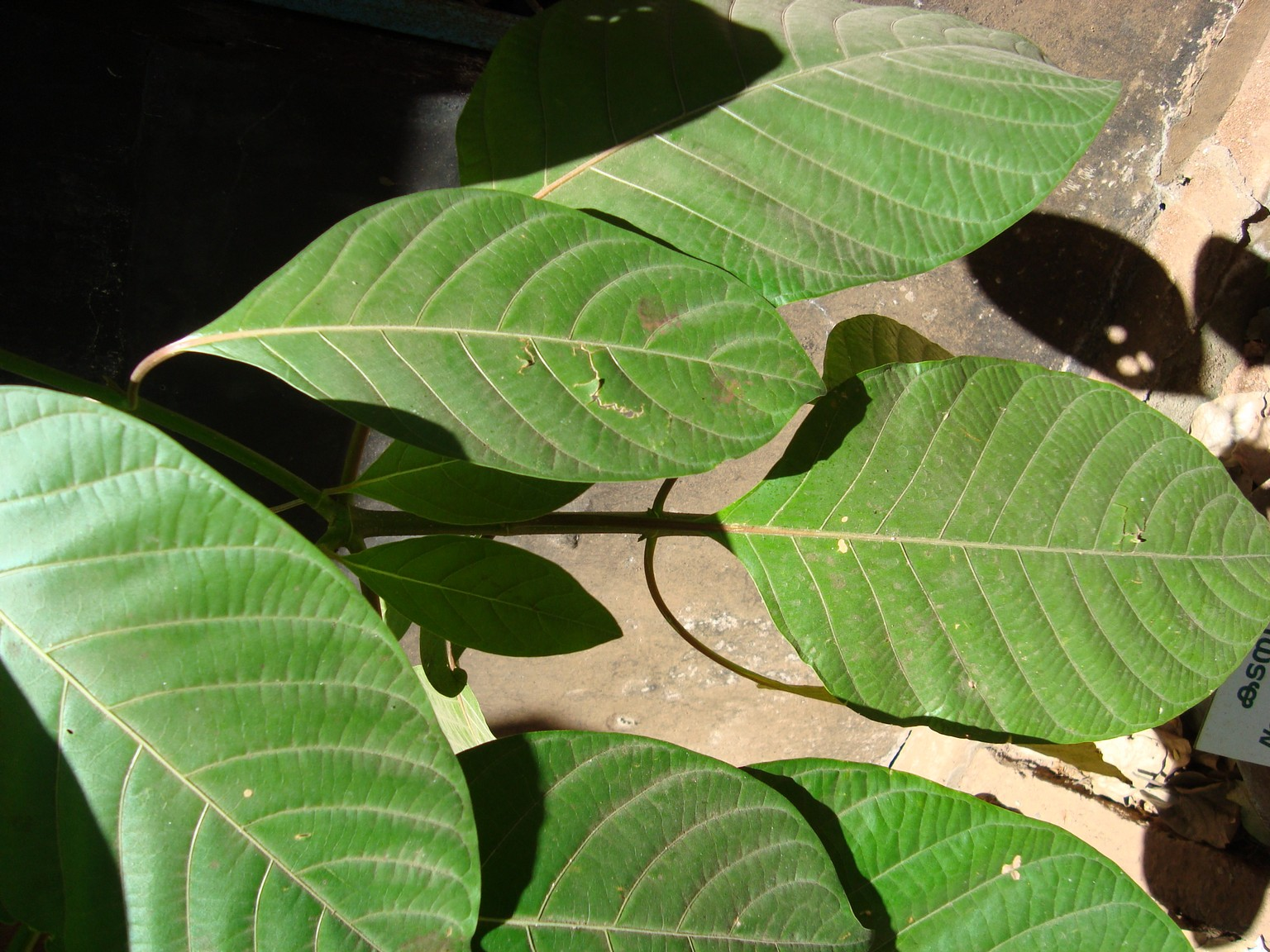 At Thrissur, Kerala, India